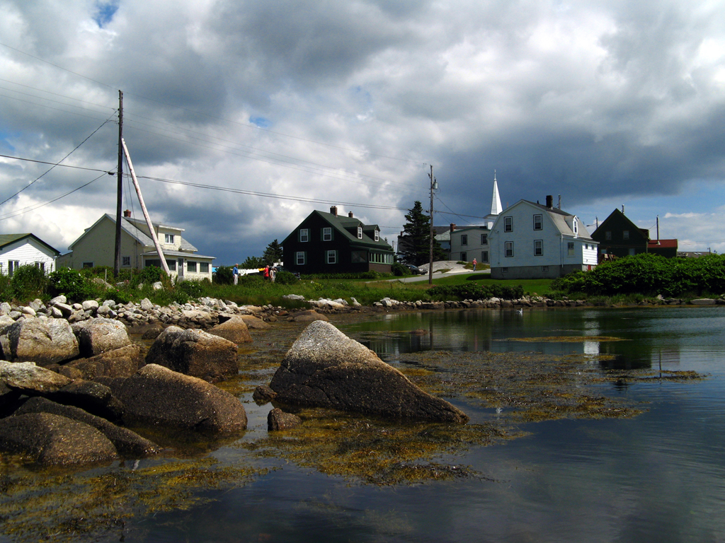 Prospect Village, located outside of Halifax, Nova Scotia, Canada.